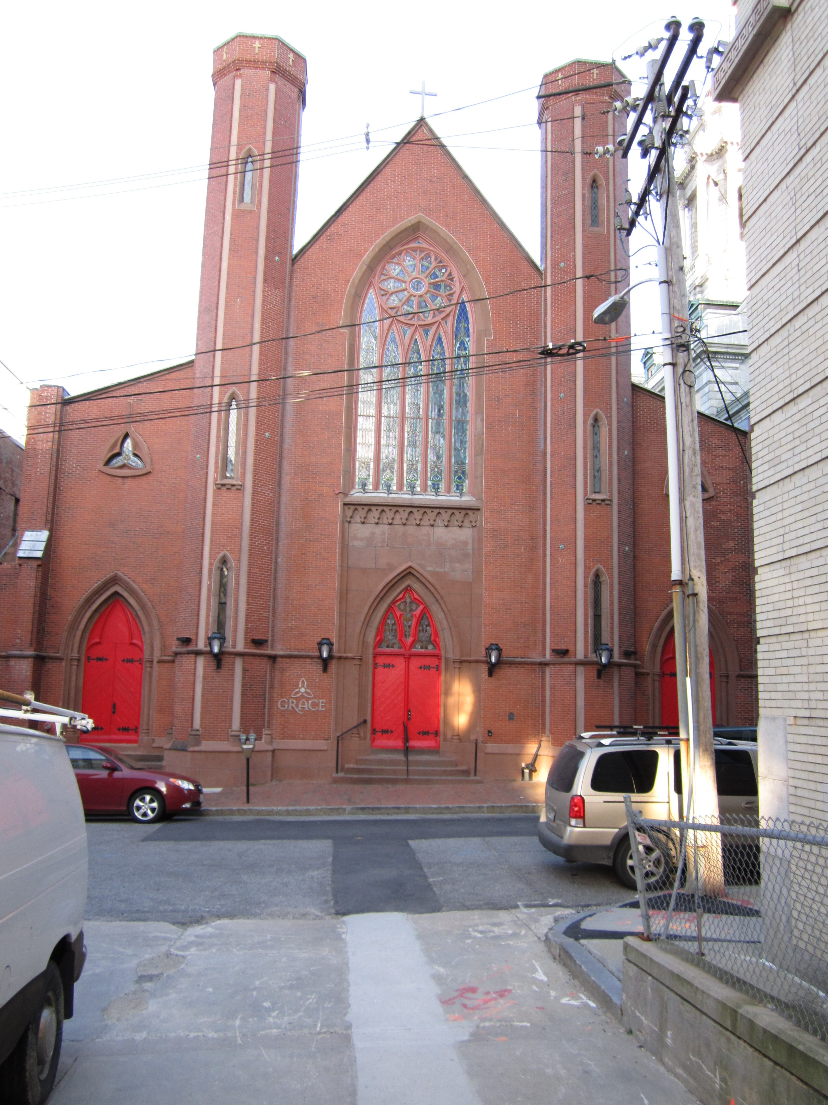 The Chestnut Street Methodist Church in downtown Portland, Maine.